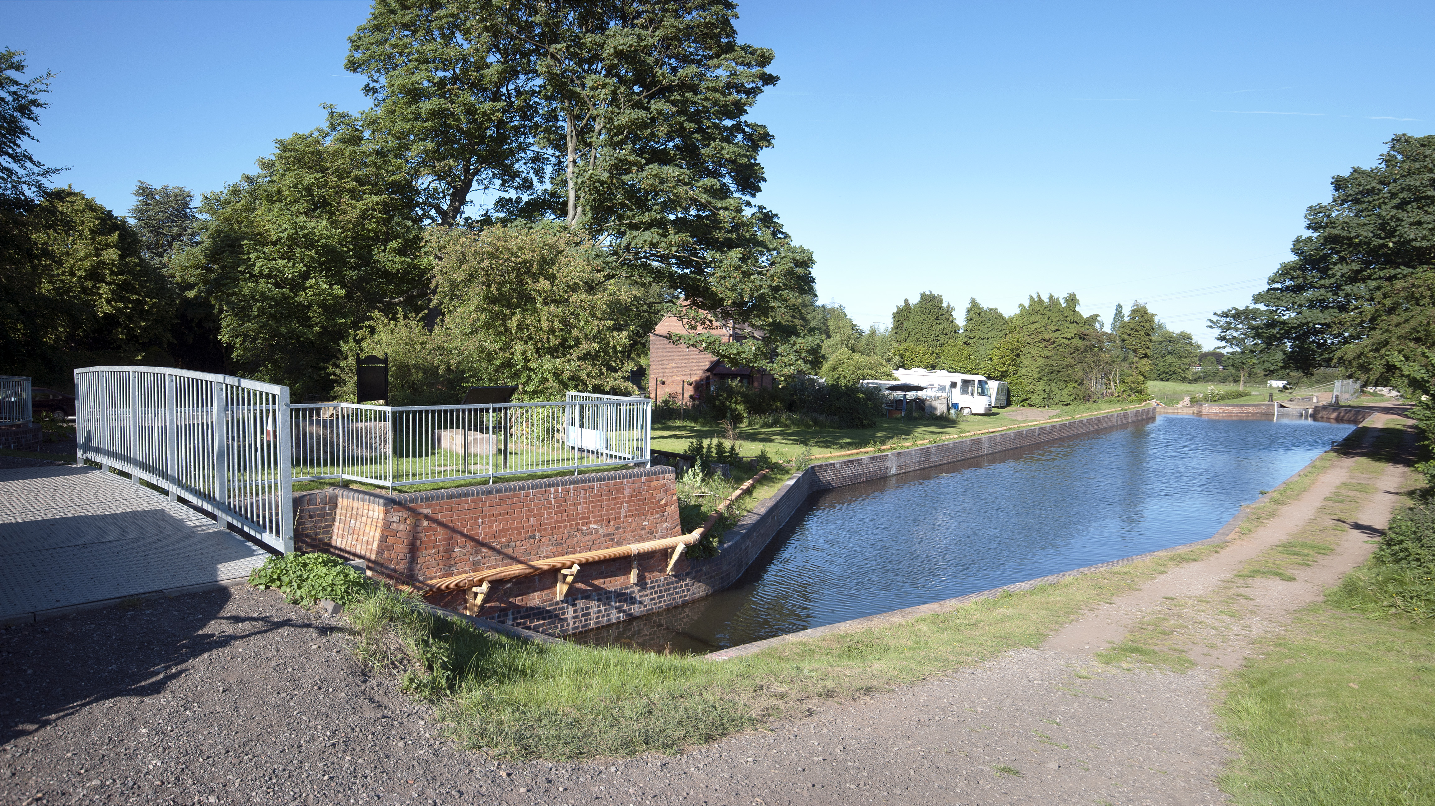 Lichfield Canal between Lock 25 and 26. The first part of the restored canal to be re-watered in April 2011.